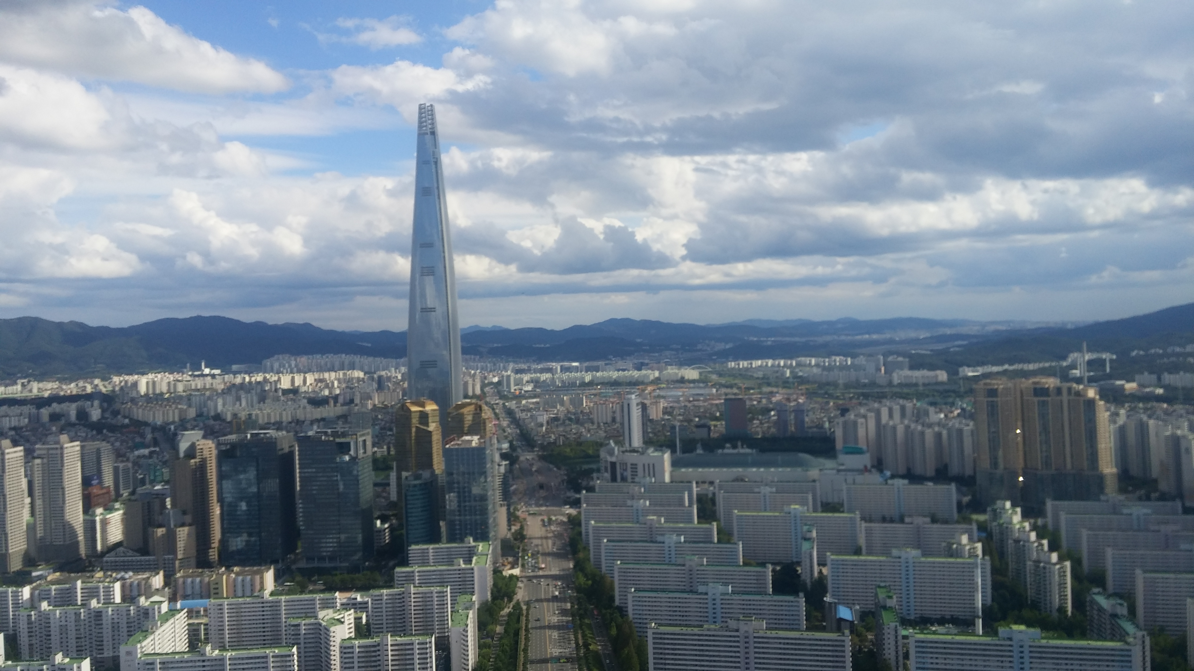 Lotte World Tower in September 2016. From the view of a helicopter.